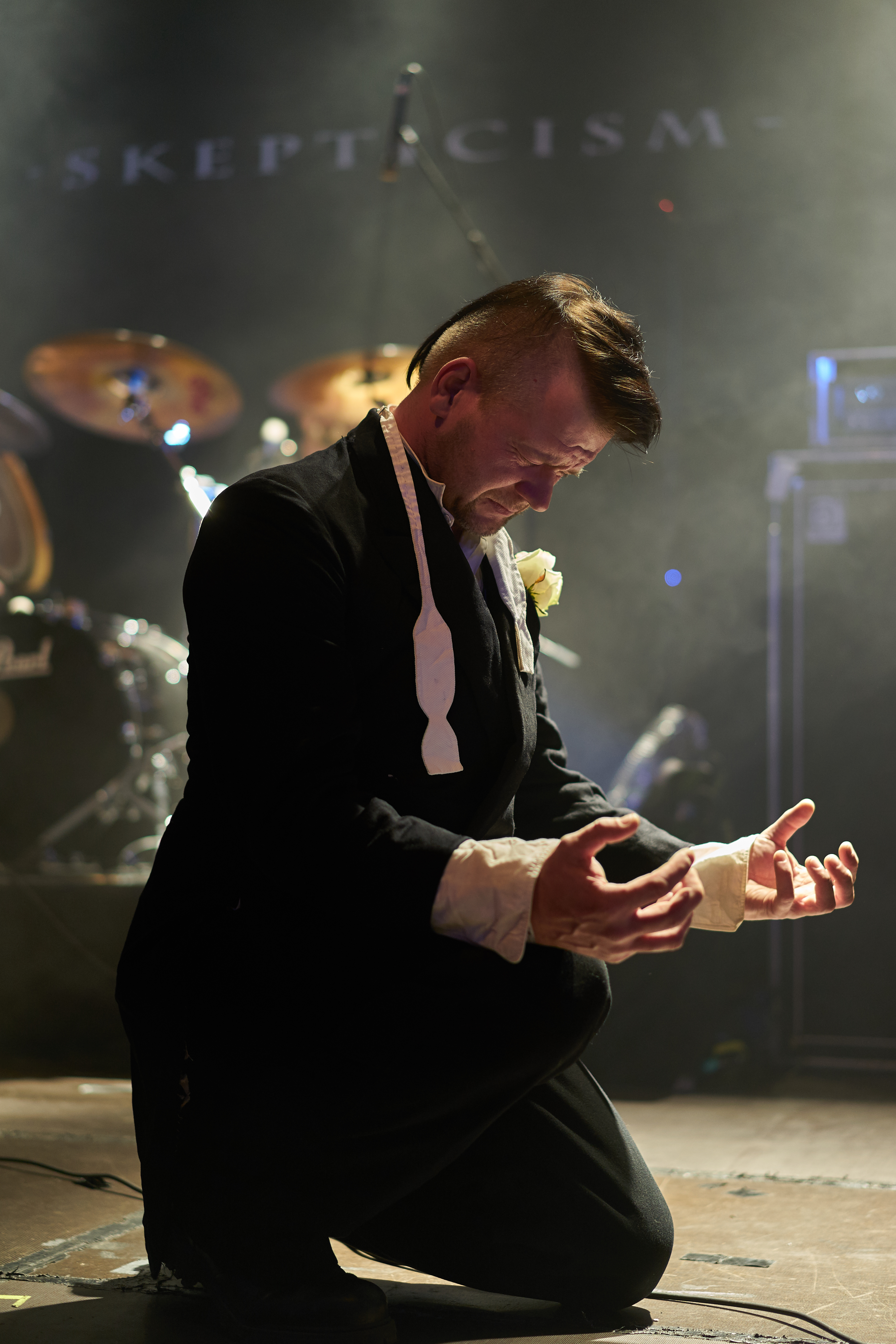 Finnish band Skepticism at Hammer of Doom Festival, Würzburg, Posthalle, 21.11.2015 Festivalsommer This photo was created with the support of donations to Wikimedia Deutschland in the context of the CPB project "Festival Summer". Personality rights warningAlthough this work is freely licensed or in the public domain, the person(s) shown may have rights that legally restrict certain re-uses unless those depicted consent to such uses. In these cases, a model release or other evidence of consent could protect you from infringement claims.